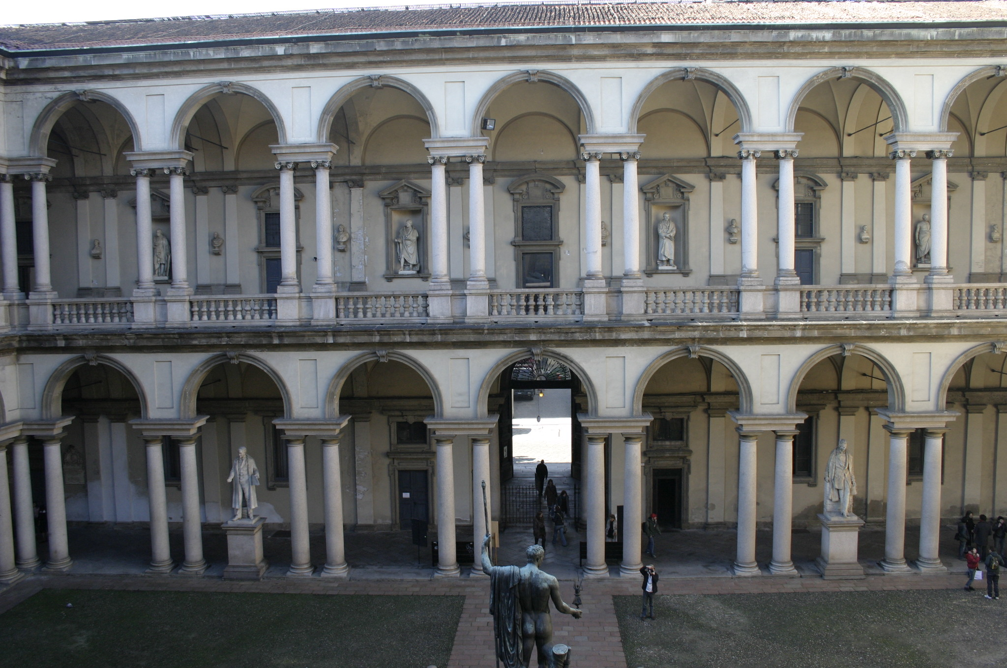 The 17th century courtyard in the Palace of Brera at Milan. Picture by Giovanni Dall'Orto, January 19 2007.